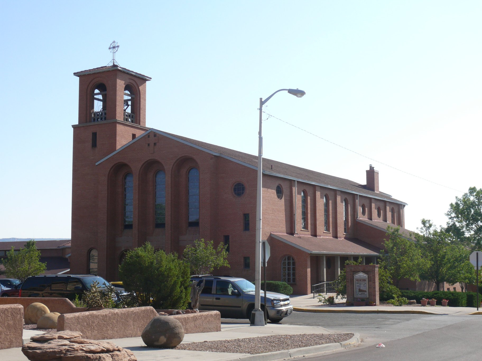 The Sacred Heart Cathedral of Gallup (New Mexico, USA).